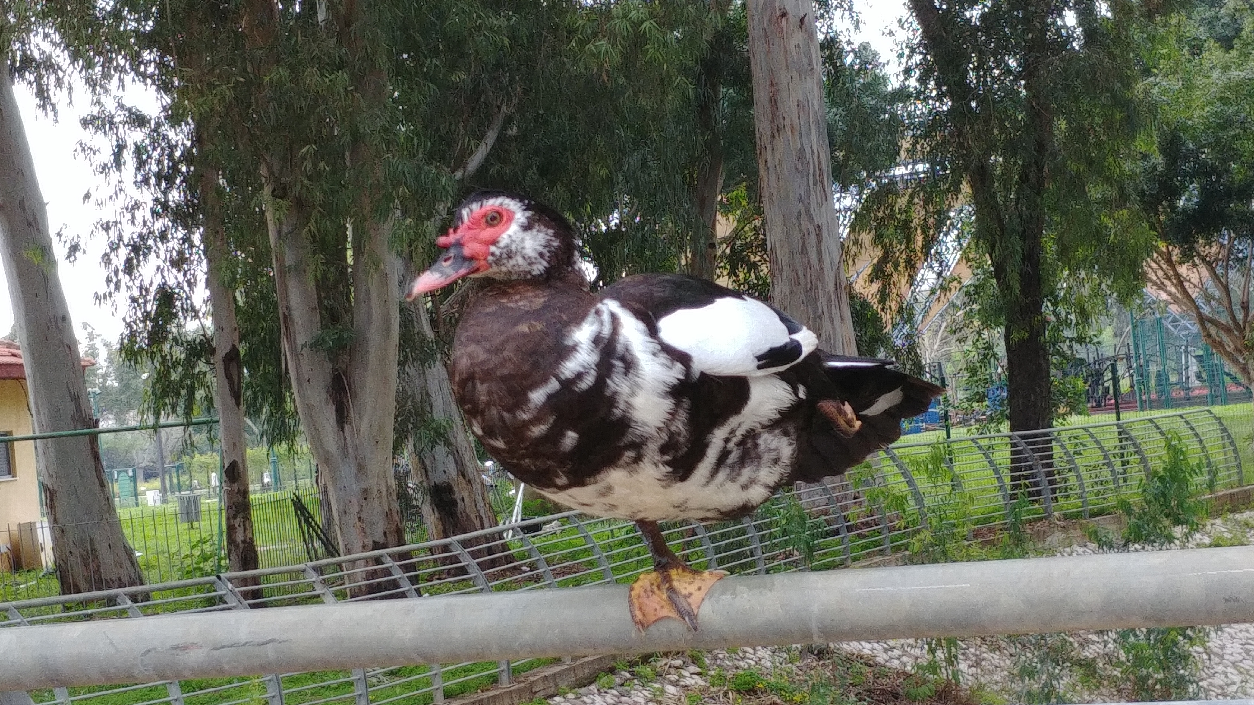 Duck with feathers in black and white. Photographed at the Ramat Gan National Park